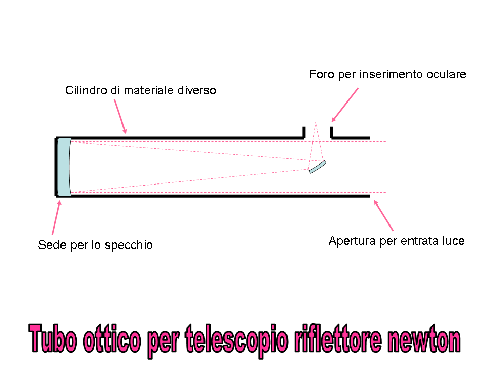 Optical tube of reflector telescope